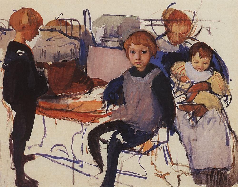 In the nursery (water color and tempera on paper, by Zinaida Serebrakova, 1913)